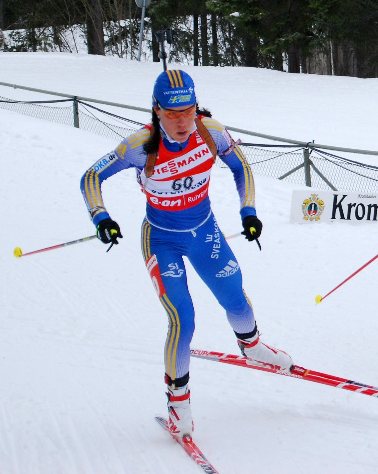 Swedish biathlete Sofia Domeij during the World Championships in Östersund 2008.